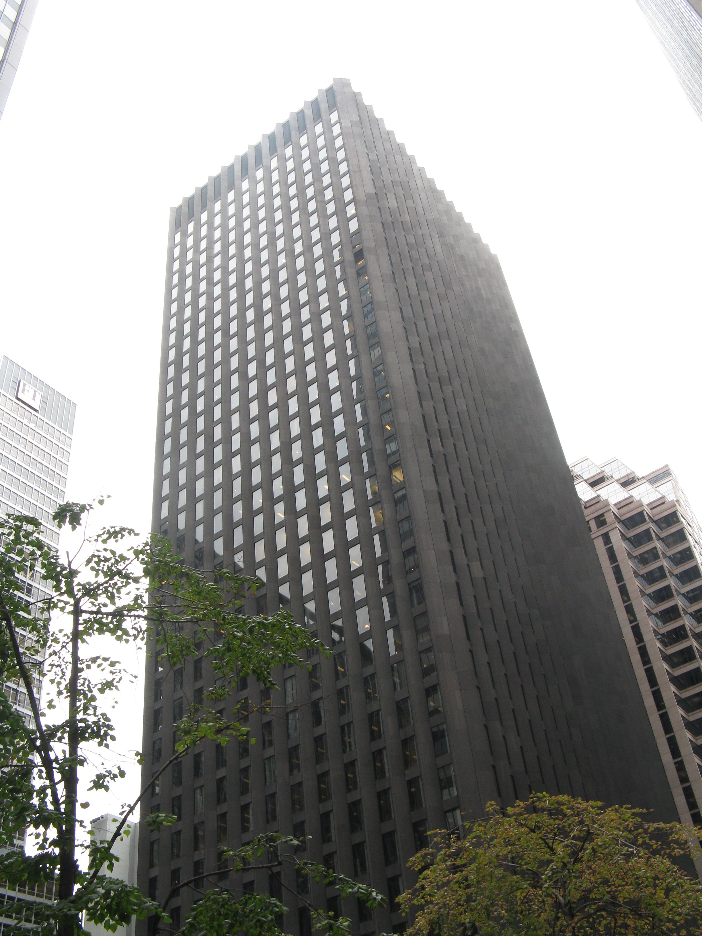 CBS Building (Black Rock)